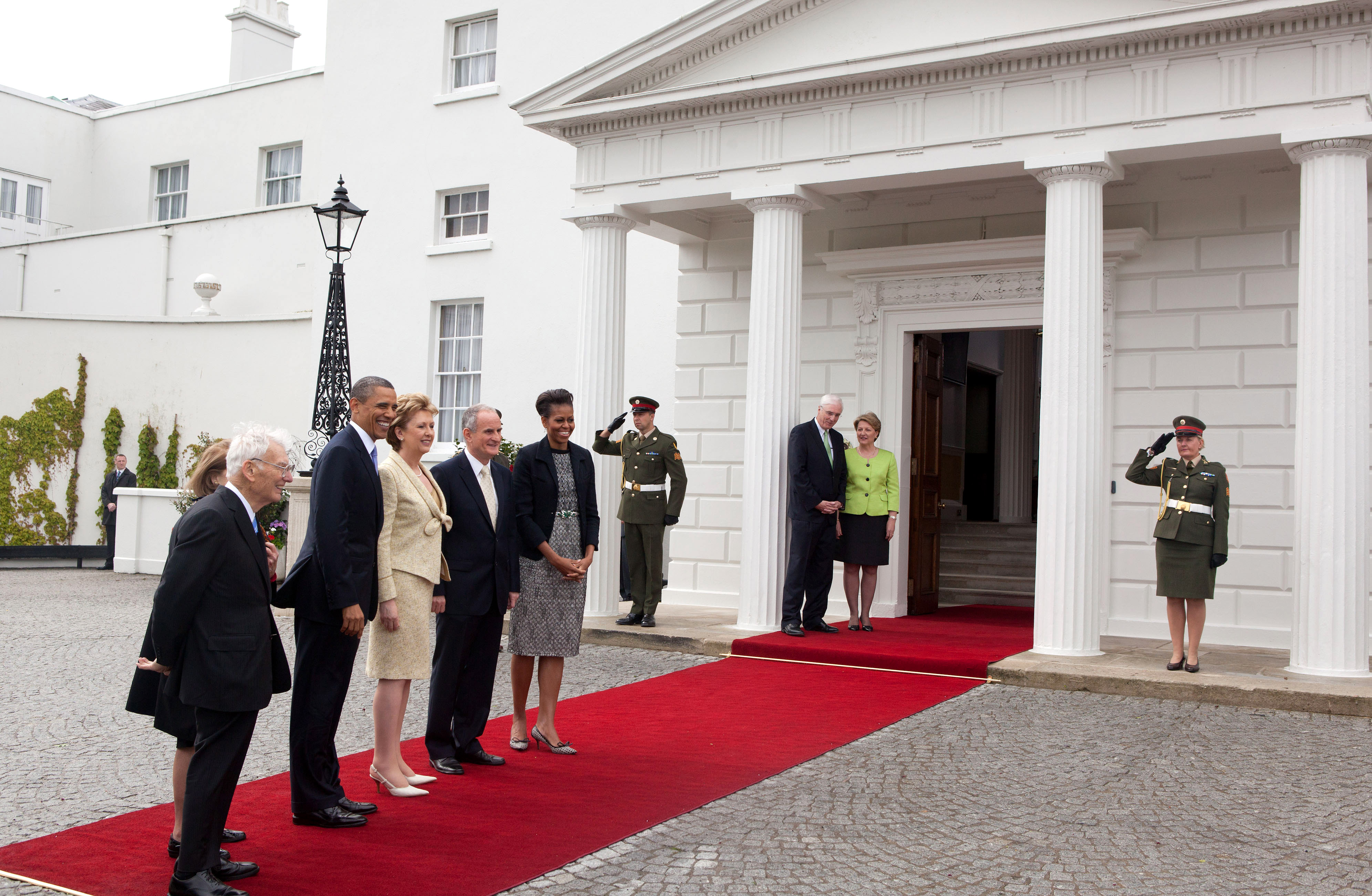 The President of Ireland welcomes the American President to her official residence, Áras an Uachtaráin, in Dublin, on 23 May 2011. Left to right on the red carpet: United States Ambassador to Ireland, Dan Rooney; his wife, Patricia Rooney; United States President Barack Obama; Irish President Mary McAleese; her husband Dr. Martin McAleese; and United States First Lady Michelle Obama.